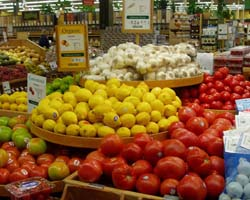 Author: Whole Foods Market. Photo of produce department, Cary, NC This image is copyrighted; however, the copyright holder allows the image to be freely redistributed, used commercially and for any other purpose, provided that their authorship is attributed.